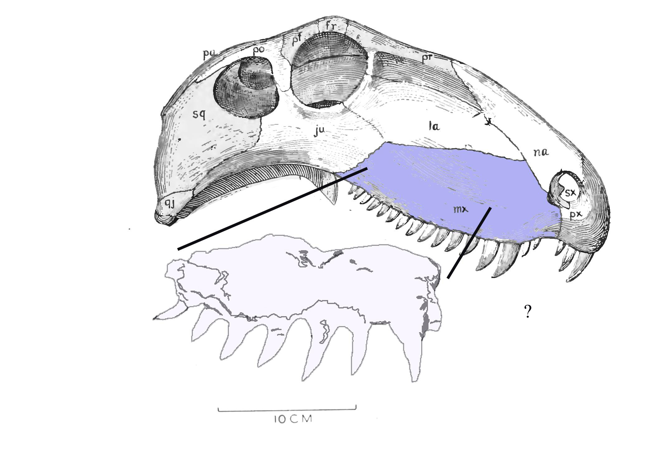 Outline of Steppesaurus' maxilla with skull of Sphenacodon for comparison. (Sphenacodon is from S. Williston book).